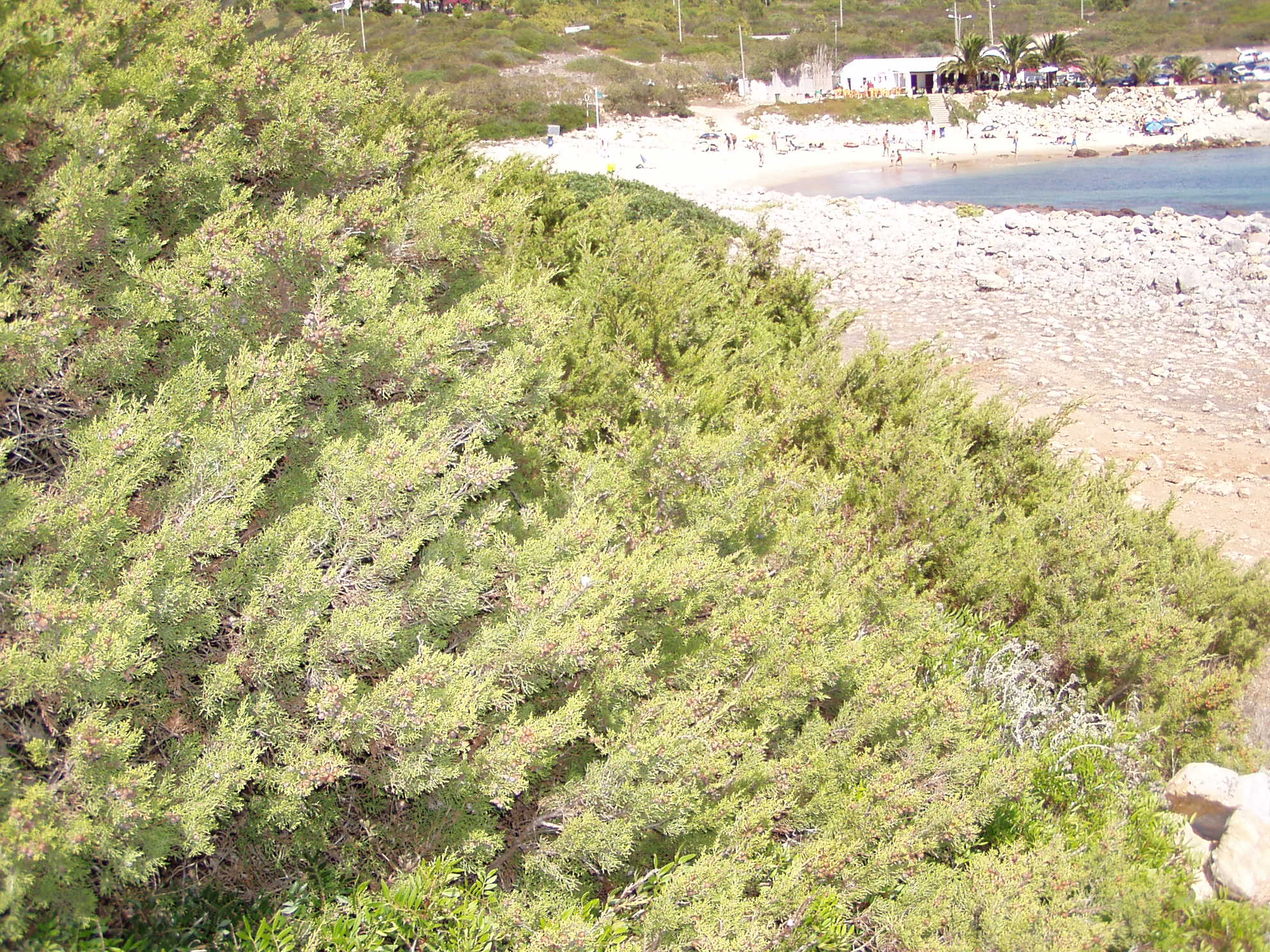 Phoenician Juniper